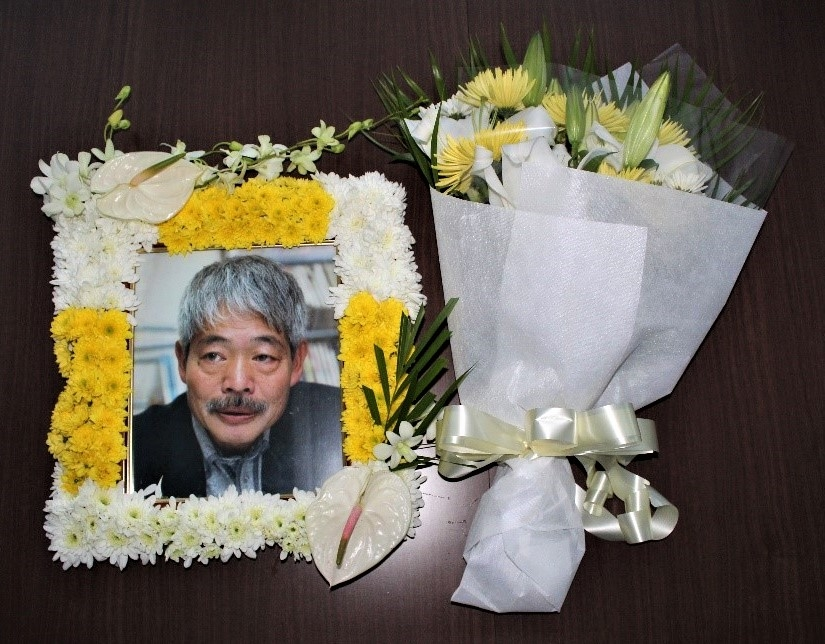 Moheb Rahman Spinghar, Ambassador to Malaysia, gave condolence flowers for Tetsu Nakamura to Hiroshi Oka, Ambassador to Malaysia, at the Embassy of Japan in Kuala Lumpur on December 12, 2019.